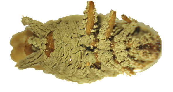 Metarhizium anisopliae fungus, capable of killing more than 200 insect species including cockroaches (pictured)